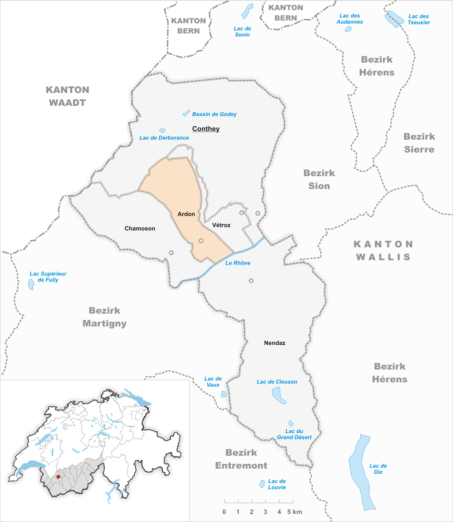 Municipality Ardon